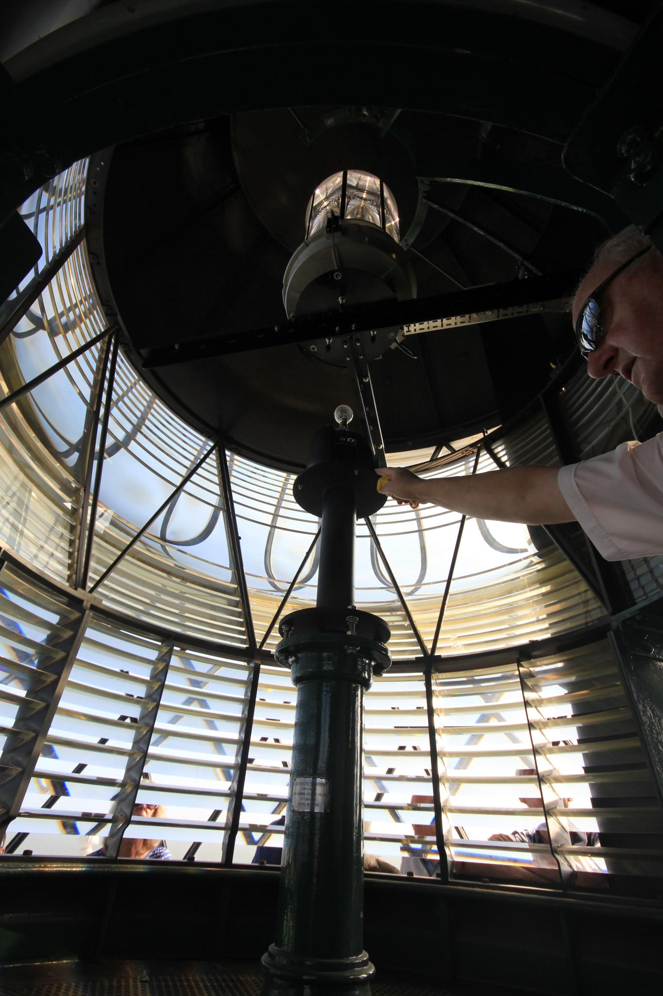 Southwold Lighthouse stands in the middle of the historic resort of Southwold, in the heart of the beautiful Suffolk Heritage Coast. The Lighthouse provides a waymark for vessels navigating the East Coast and guides vessels making for Southwold Harbour. Tours of Southwold Lighthouse are organised by Southwold Millennium Foundation under licence from the Corporation of Trinity House. The lighthouse was commissioned in 1890 and was automated and electrified in 1938. It survived a fire in its original oil-fired lamp just six days after commissioning and today operates a 150-watt lamp. The main navigation lamp has a range of 24 nautical miles (28 miles). The lighthouse is 31 metres (102 ft) tall, standing 37 metres (121 ft) above sea level. It is built of brick and painted white and has 113 steps around a spiral staircase. Two keeper's cottages were built next to the lighthouse rather than living quarters being made in the lighthouse itself. The lighthouse is a Grade II listed building.